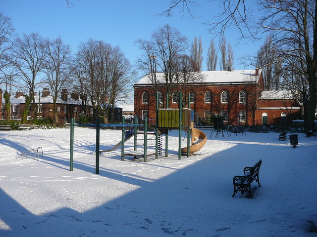 The former St George's parish church, Macclesfield, Cheshire, seen from the west